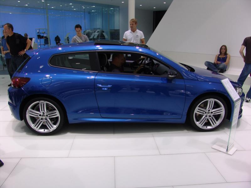 Volkswagen Scirocco